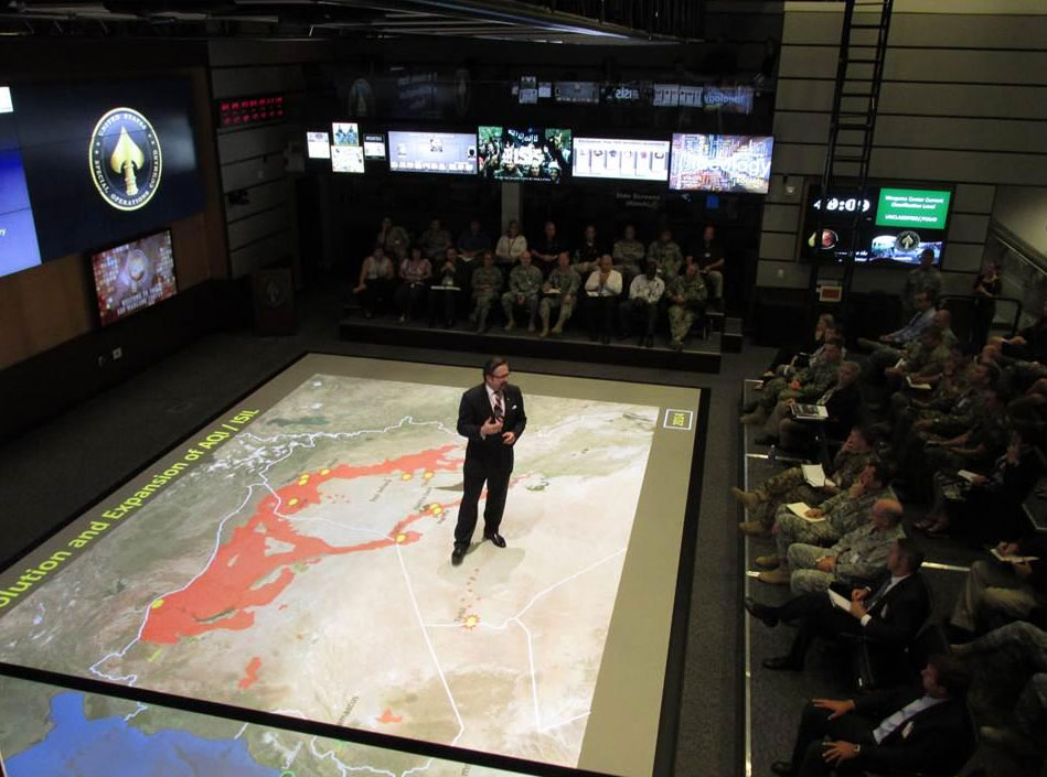 Dr. Sebastian Gorka briefing at SOCOM Wargame Center